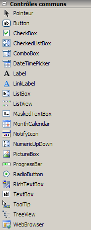 Useful controls of VB2005